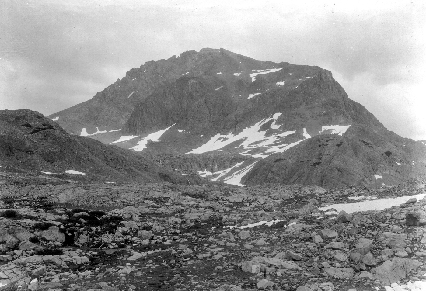 Sequoia and Kings Canyon National Park. Mt. Goddard, Sierra Nevada, from the south. Fresno County, California. 1904.